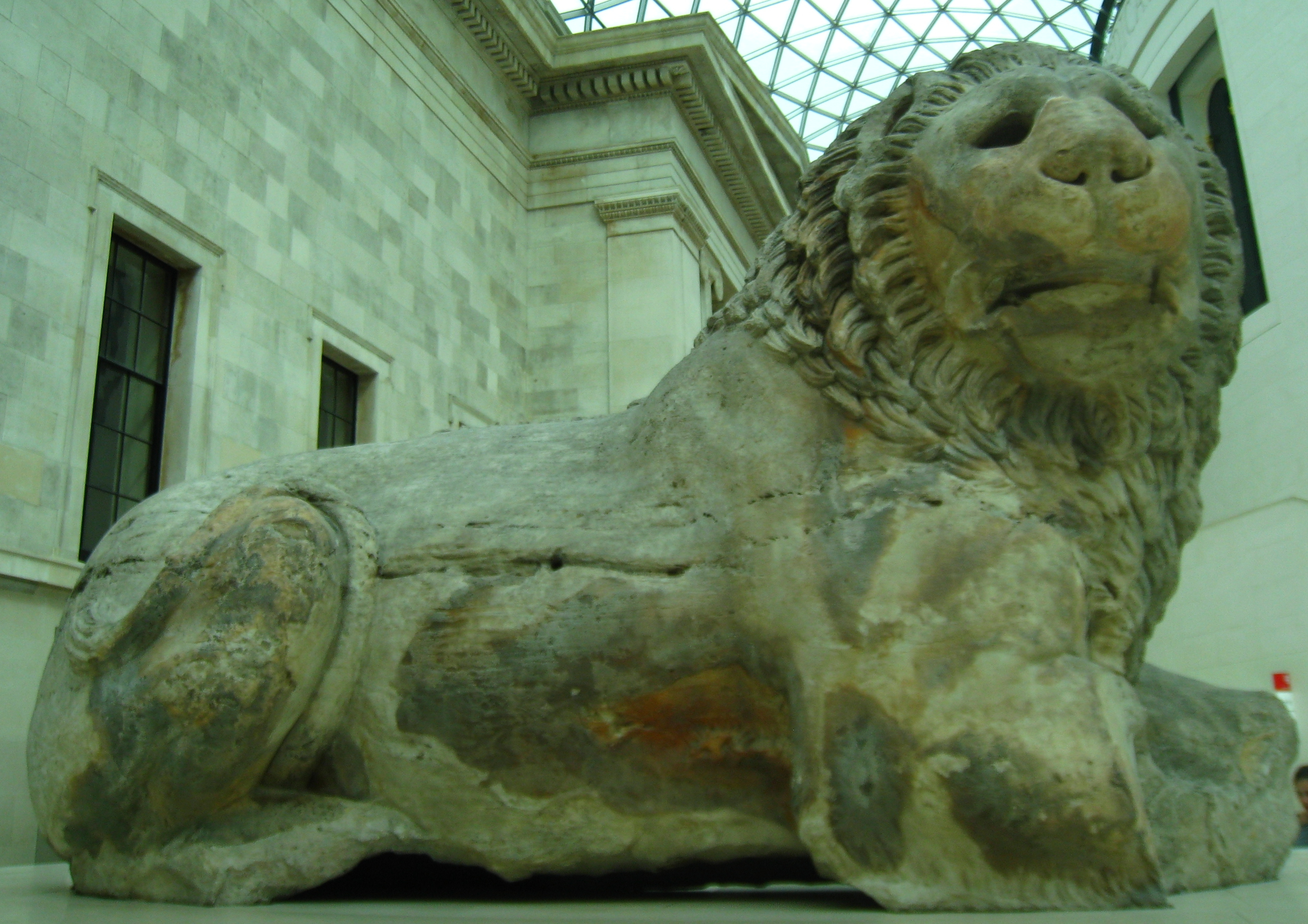 Knidos Lion in BritishMuseum